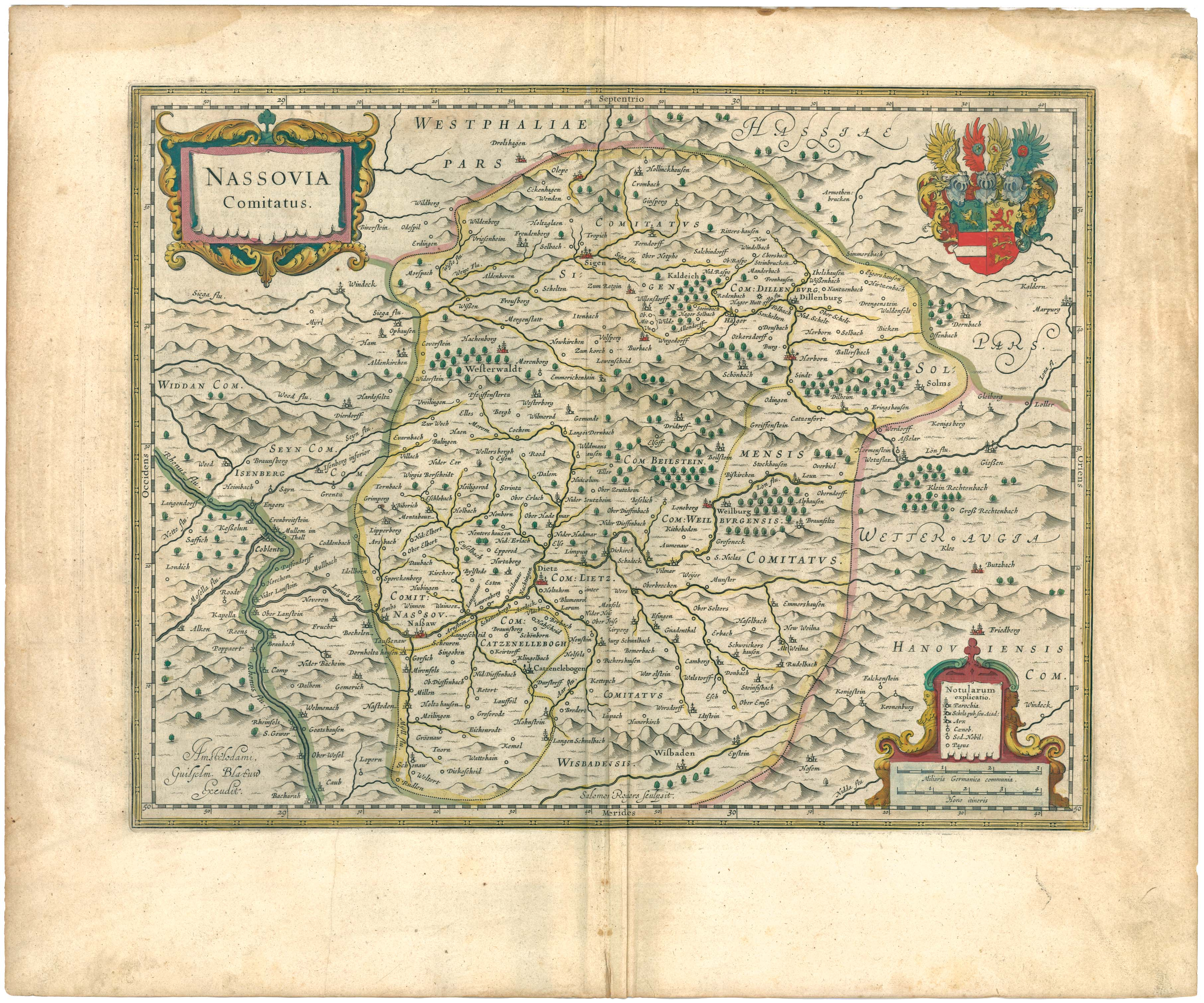 Nassovia Comitatus (County of Nassau.)from"Theatrum Orbis Terrarum, sive Atlas Novus in quo Tabulæ et Descriptiones Omnium Regionum, Editæ a Guiljel et Ioanne Blaeu"(Theater of the World, or a New Atlas of Maps and Representations of All Regions, Edited by Willem and Joan Blaeu), 1645.